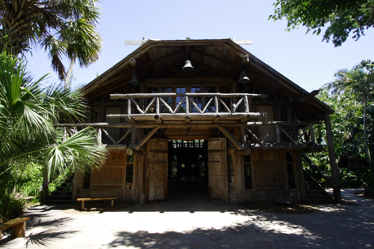 "The Hall of Giants" designed by Waldo Sexton and constructed in 1941. Located within McKee Botanical Garden.